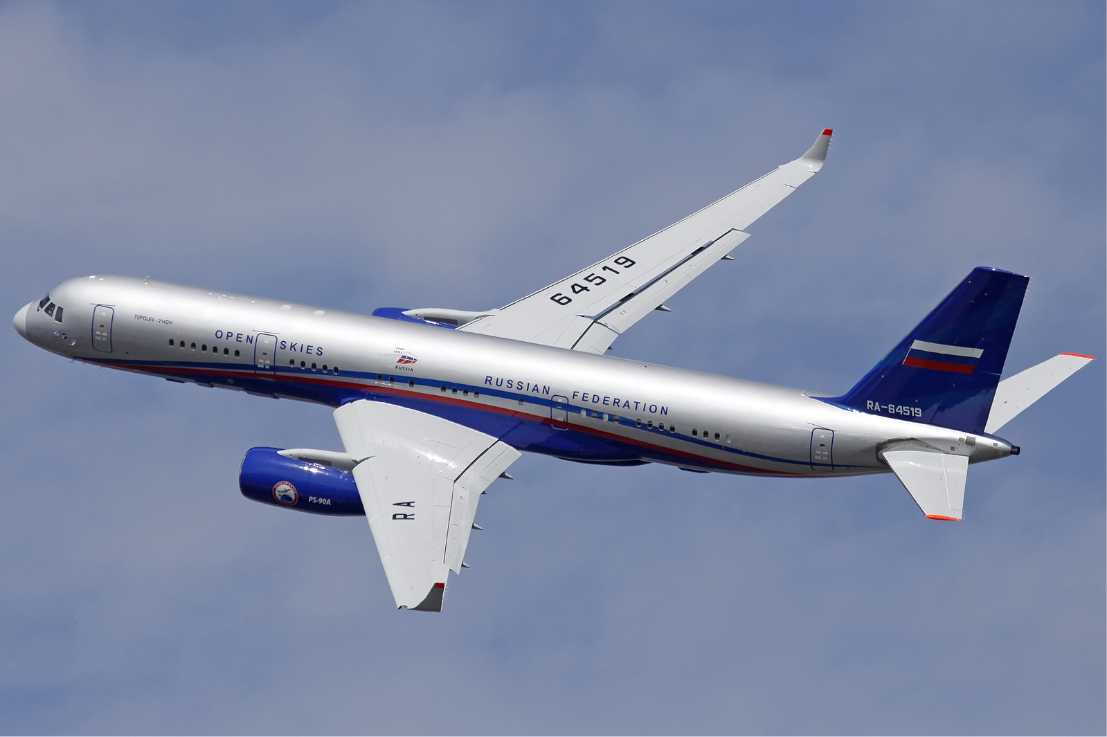 Russian Air Force Tupolev Tu-214ON which will be operated under the Open Skies treaty